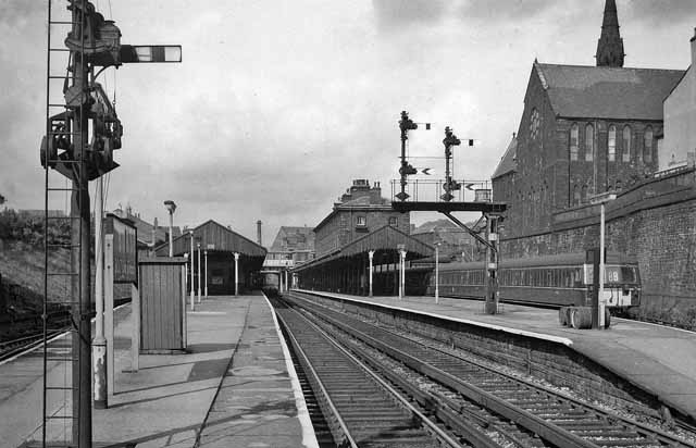 Bury (Bolton Street) Station. View northward, towards Ramsbottom, Accrington, Burnley and Colne; ex-Lancashire & Yorkshire, Manchester (Victoria) via Clifton Junction and via Prestwich, also from Rochdale, to Colne (East Lancashire) main line; also formerly the branch to Holcombe Brook. Electrification began with the Holcombe Brook branch in 7/13, then the line from Manchester via Prestwich was electrified in 4/16. The Holcombe Brook branch was de-electrified from 24/3/51 and closed to passengers 5/5/52, to goods on 2/5/60; Ramsbottom - Accrington was closed on 5/12/66; Bury - Ramsbottom closed 2/6/72, but was reopened by the heritage East Lancashire Railway in 1987 with Bury Bolton St. as their headquarters. Bolton Street station was closed on 17/3/80, when Bury Interchange was opened as terminus of the electric services from Manchester, more recently (4/92) of the Manchester Metrolink.